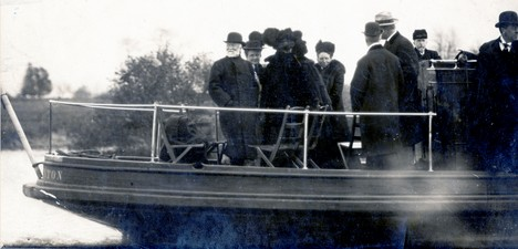 Photo of Andrew Carnegie attending the First Regatta, November 8, 1907. Photo resides in the Princeton University Archives, but is in the public domain due to being published prior to 1923. [1][2]